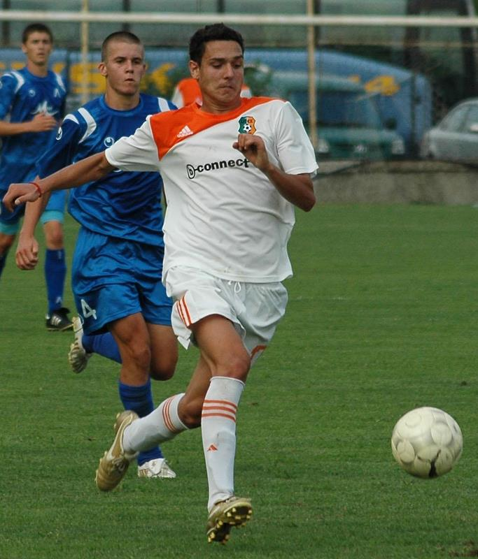 Georgi Milanov